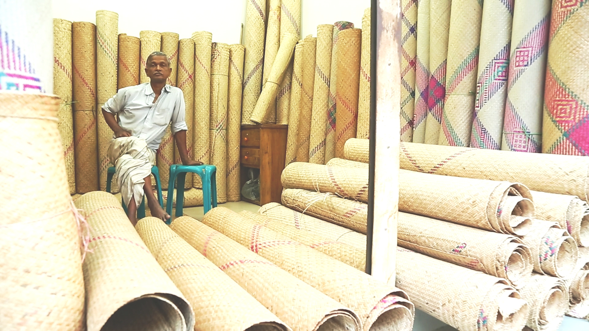 A shop in Dhaka, Bangladesh, that sells Sheetal Pati (Cane mat)